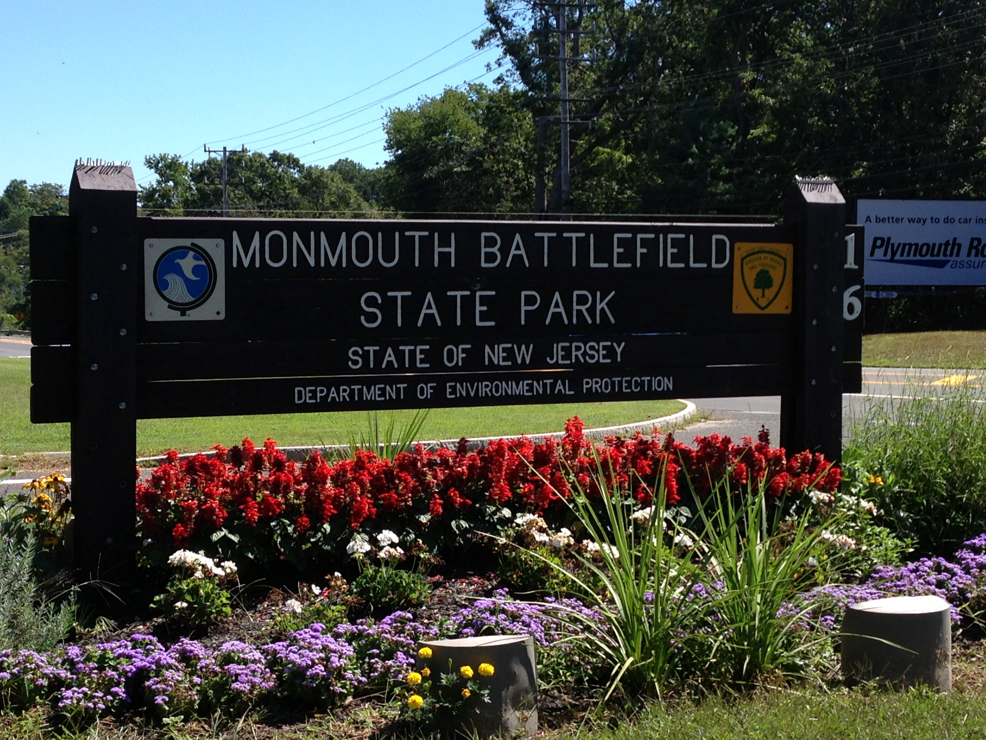 Monmouth Battlefield State Park entrance sign.